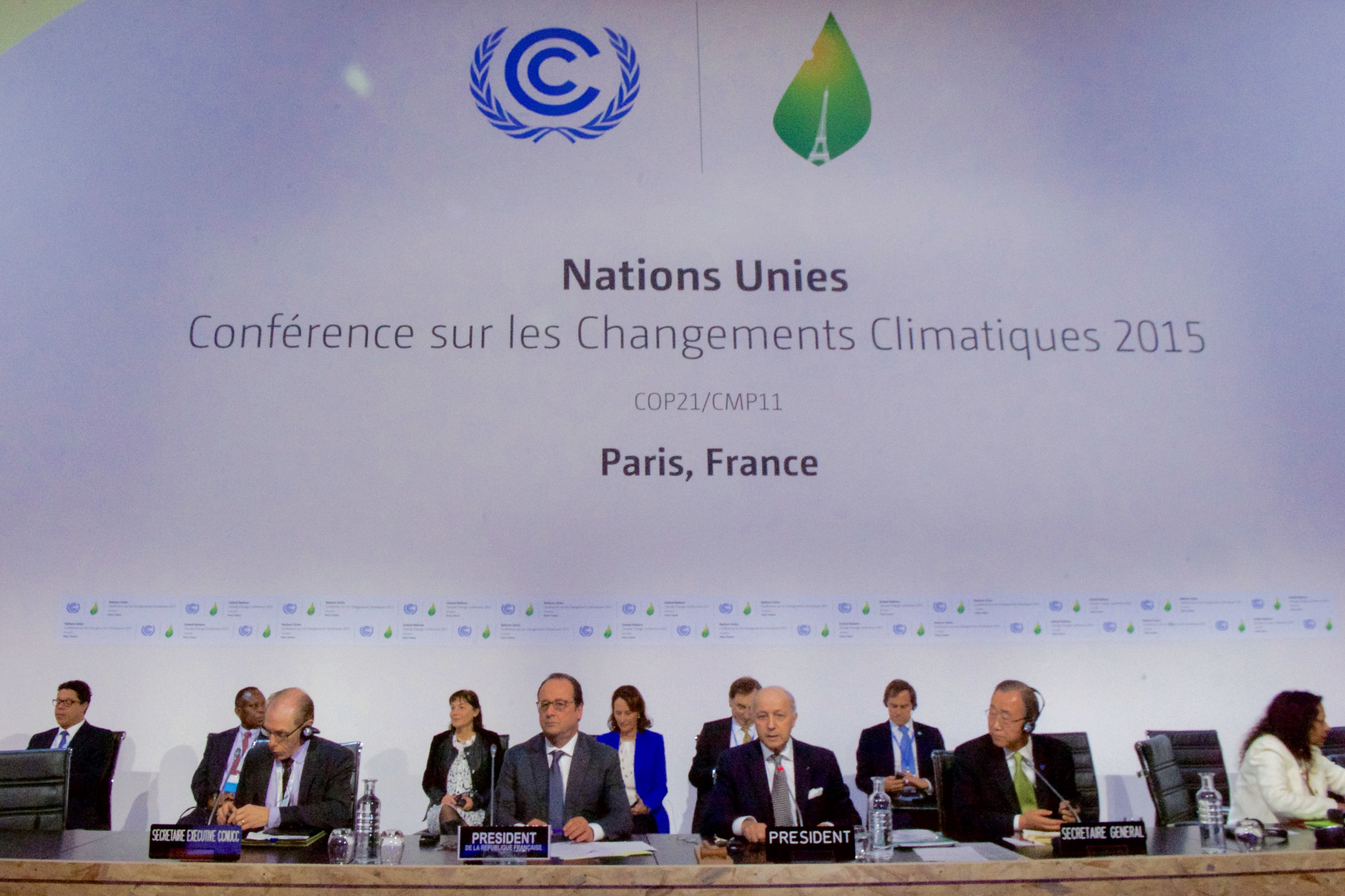 French President Francois Hollande, French Foreign Minister Laurent Fabius, President of the COP21 climate change conference, and United Nations Secretary-General Ban Ki-moon sit on the stage at the COP21 climate change conference on December 12, 2015, after arriving in the Plenary Hall at LeBourget Airport in Paris, France.